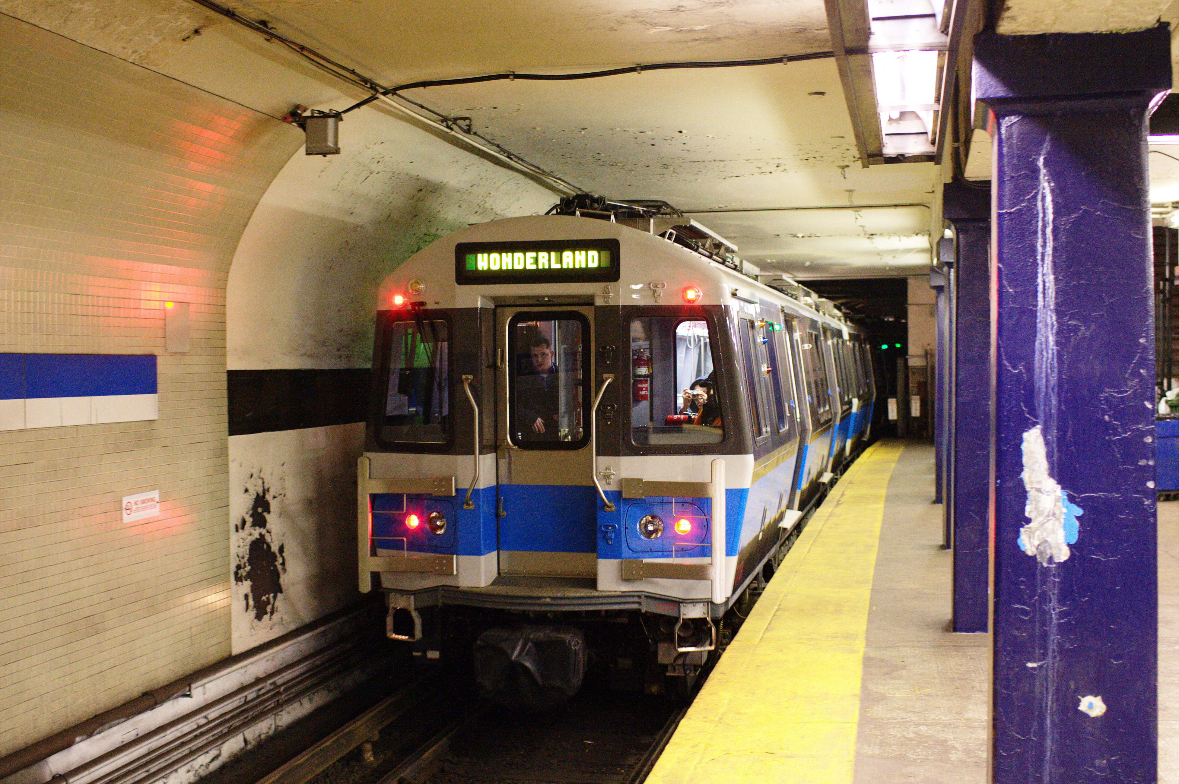 The first revenue train of Siemens 0700 cars at Government Center station in 2008